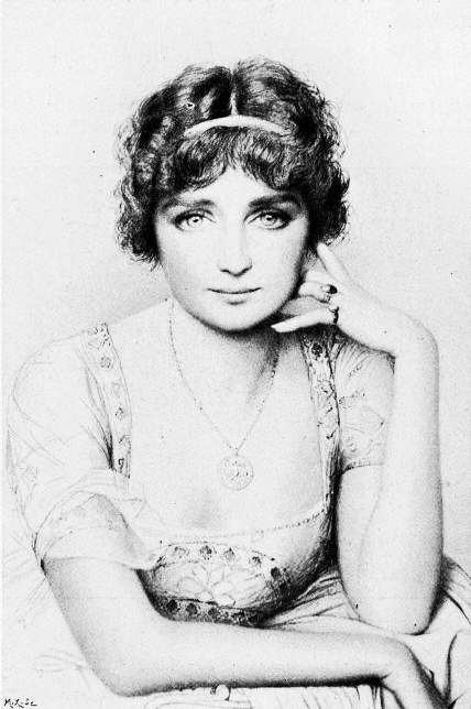 French opera singer Geneviève Vix (1879-1969)